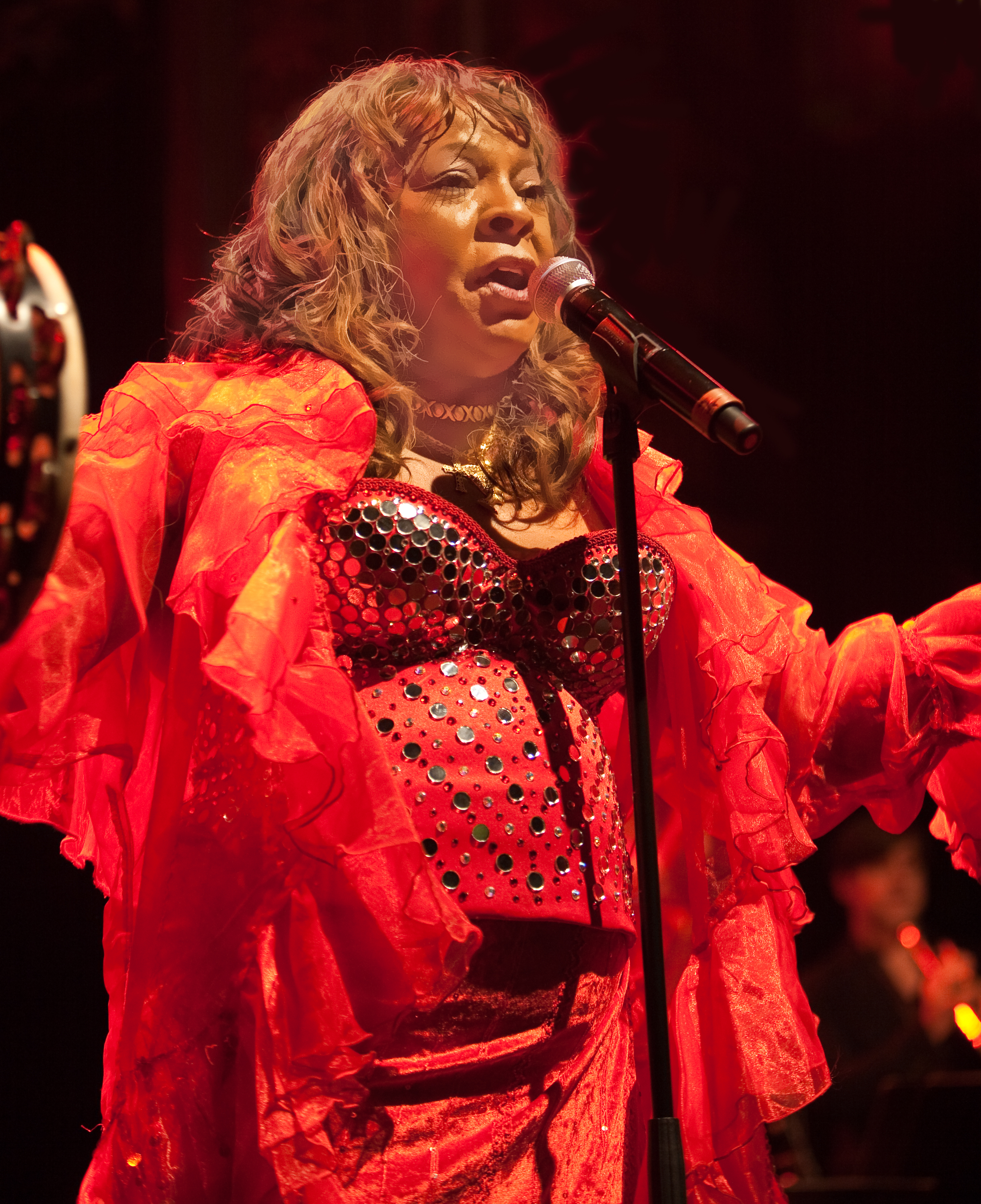 Martha Reeves in the Vandellas at Berns, Stockholm, 2011